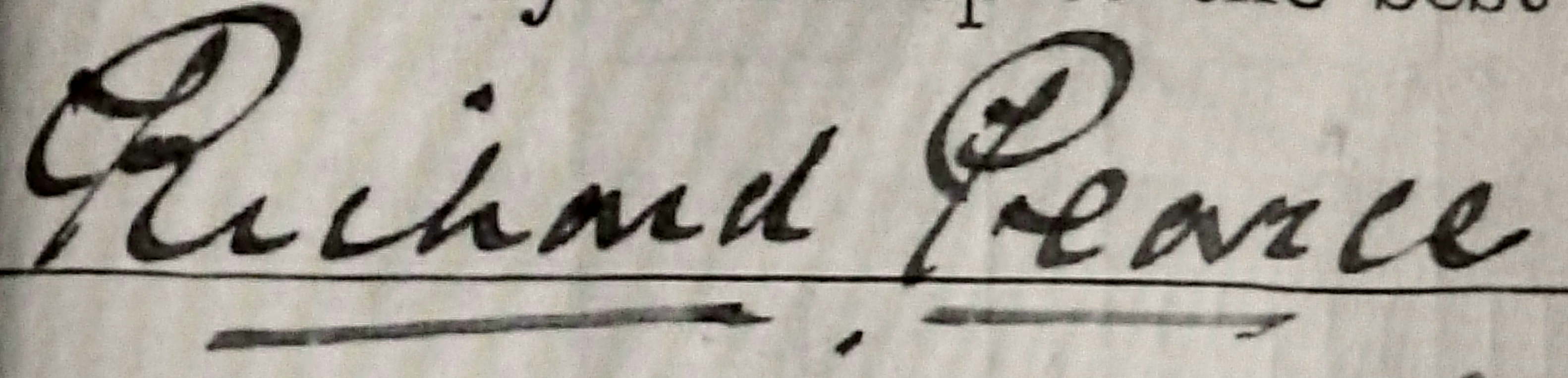 Signature of Reverend Richard Aslatt Pearce, the first ordained deaf and non-speaking Anglican priest.